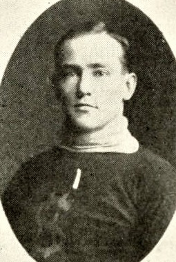 Ice hockey player Fred Povey of the Pittsburgh Bankers in the 1907–08 WPHL season.